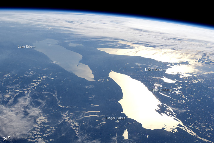 Overview of the Great Lakes from orbit